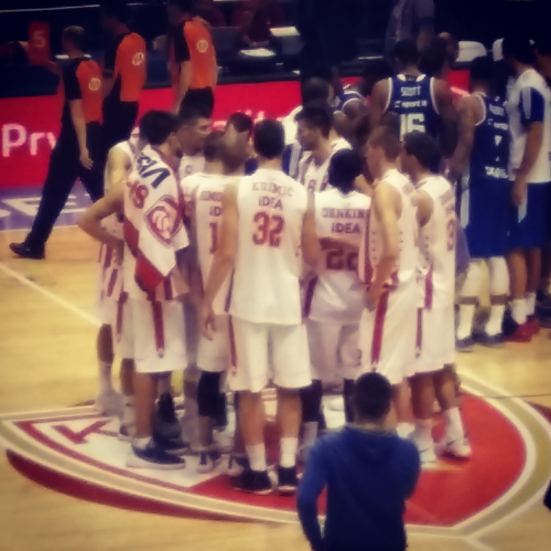 Team KK Crvena zvezda on start of the season 2016